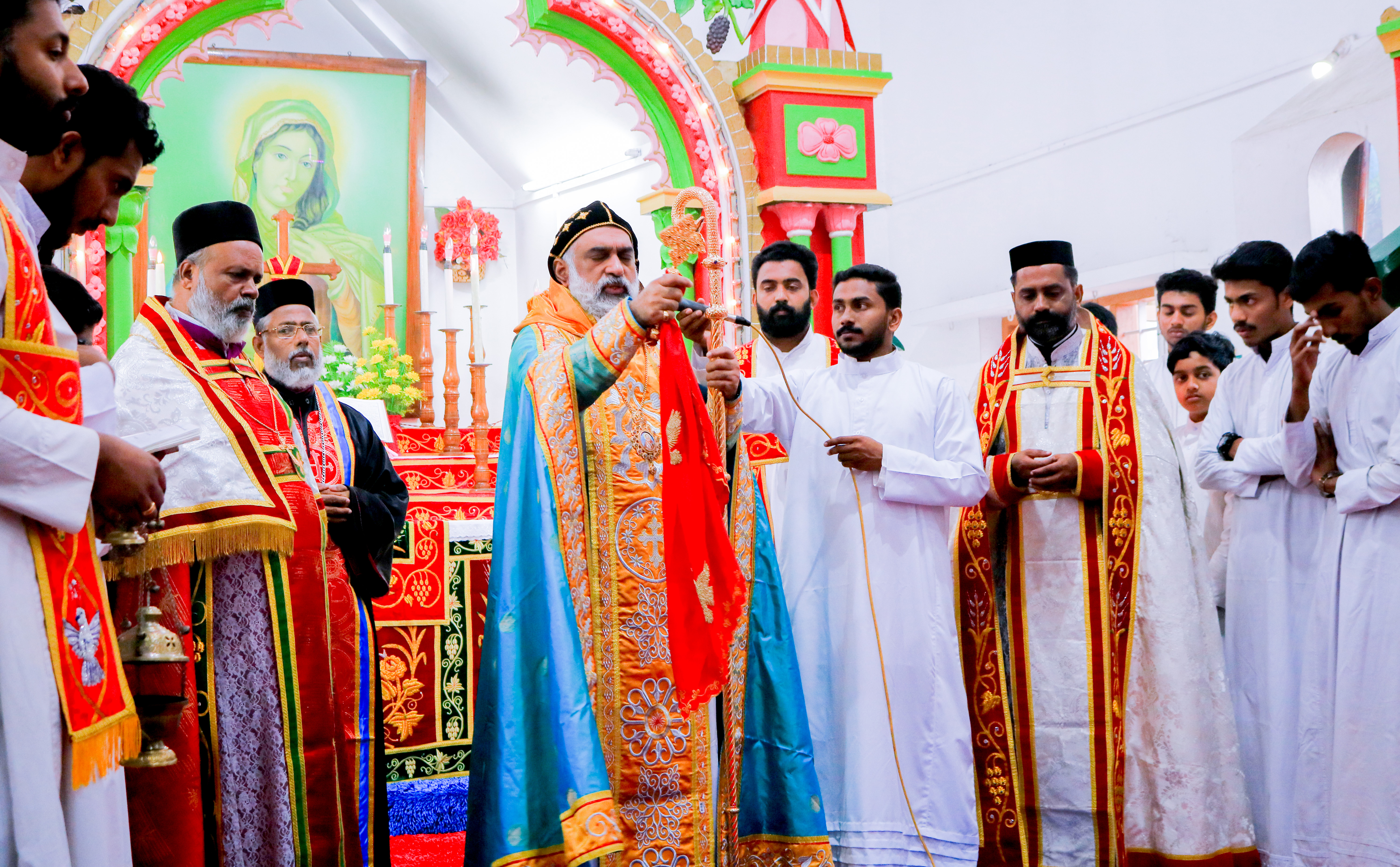 Eucharist at St. Mary's Church, Meenangadi - Liturgical Vestments of a bishop, chorbishops, priest, and deacons.